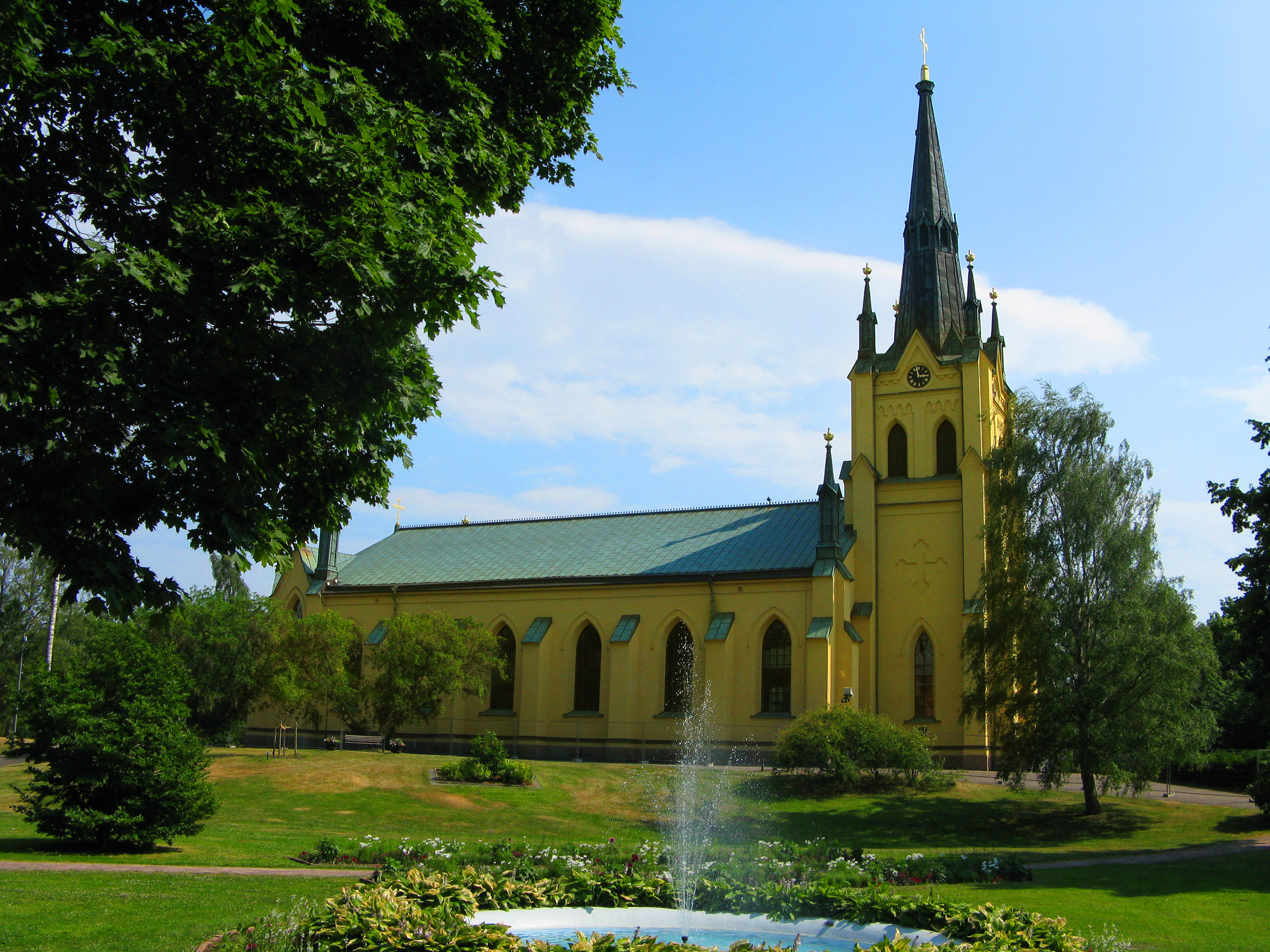 Oskarshamn church, Sweden.